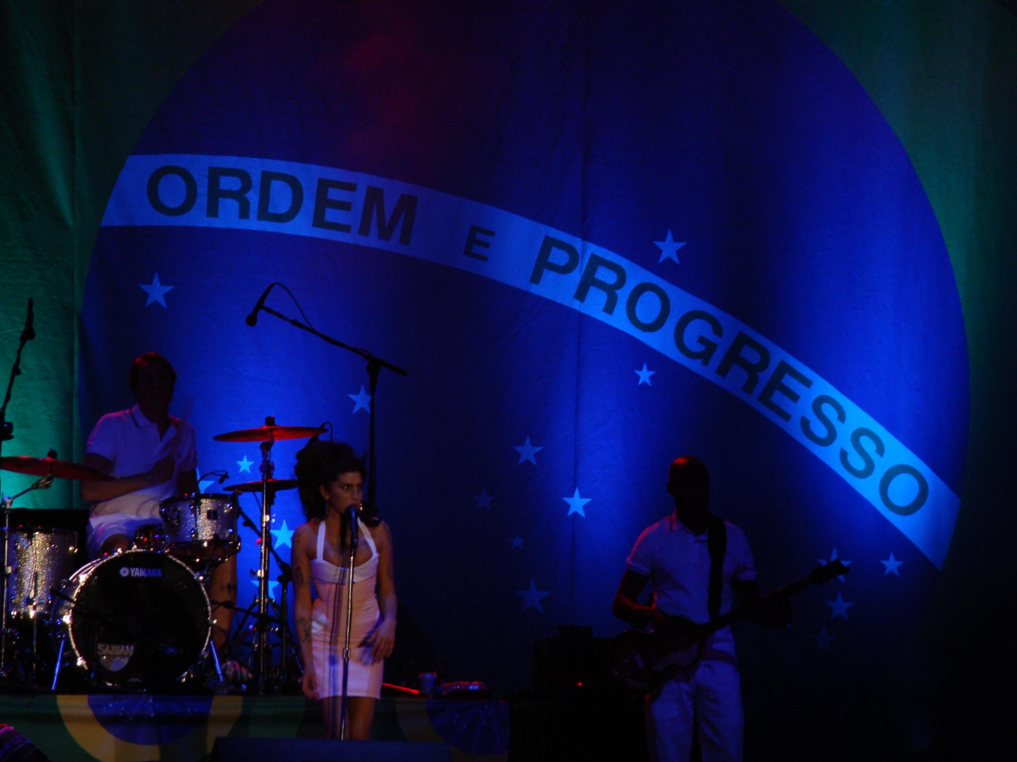 Amy Winehouse performs live on stage at Pacha as part of Summer Soul Festival on January 8, 2011 in Florianopolis, Brazil.